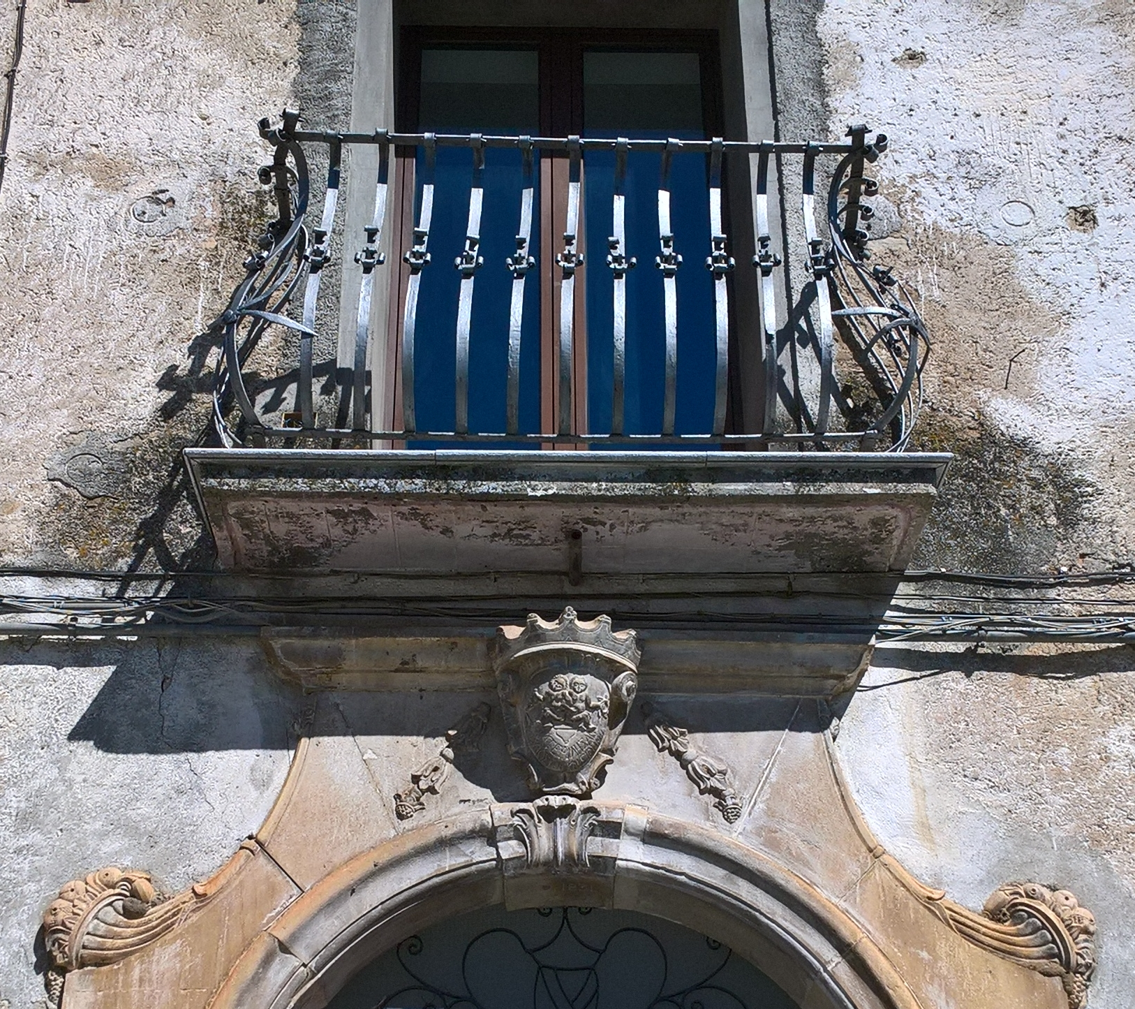 Palazzo Pace of the 17th century, balcony